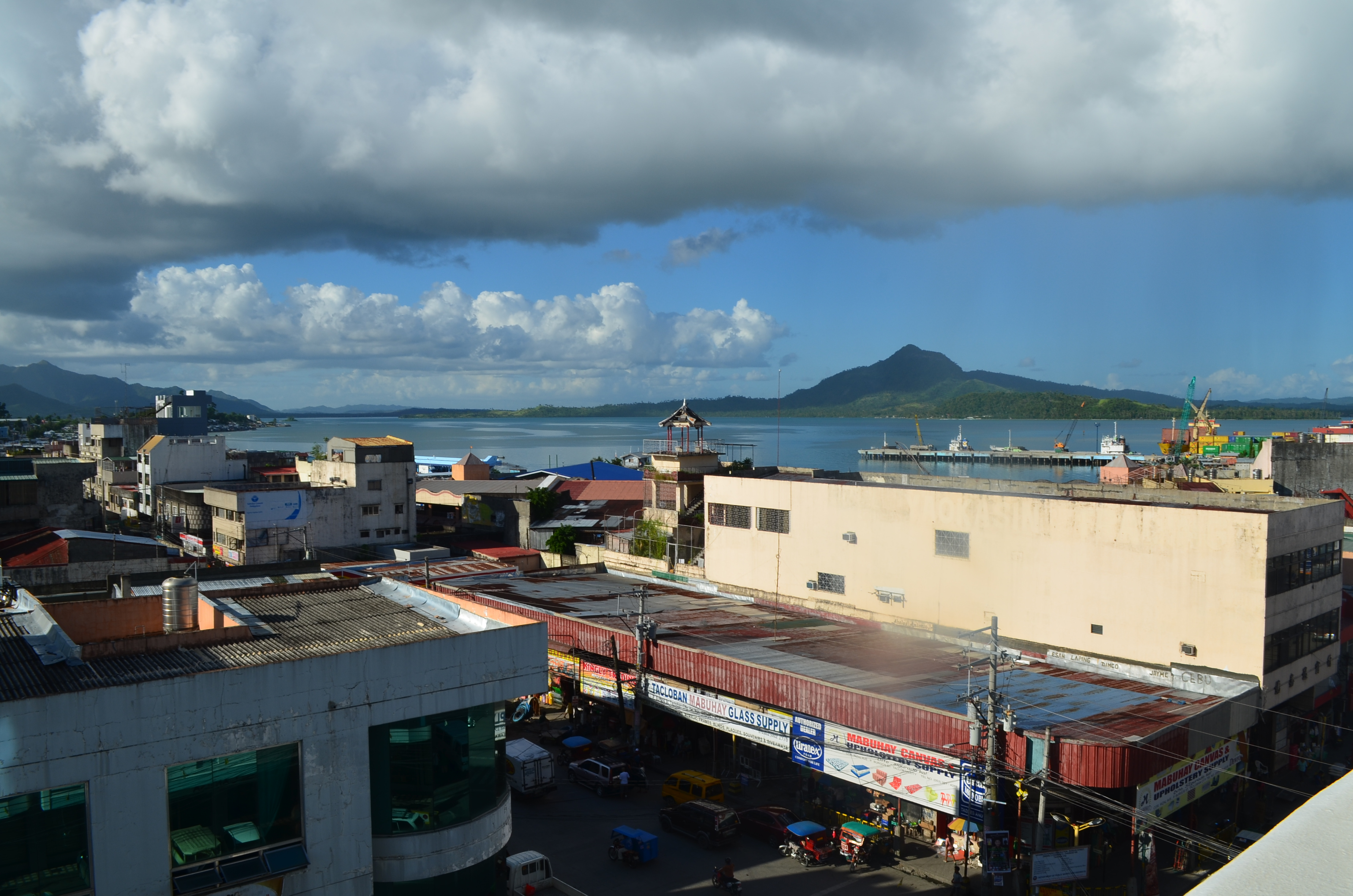 Taken during the December 2015 Sinirangan Bisaya Wikimedia Community activities in Eastern Visayas